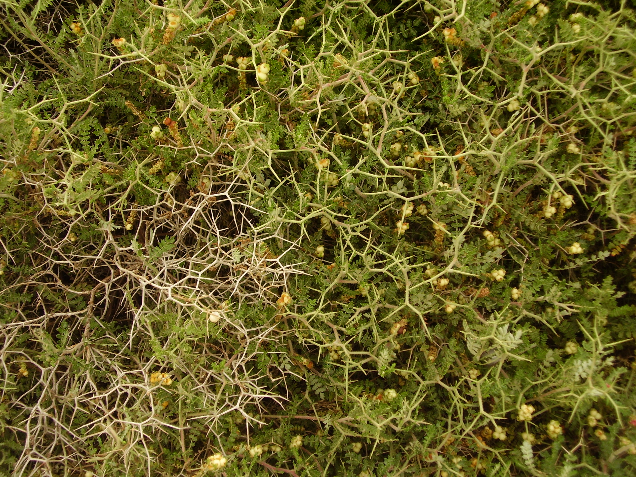 Photographed on 07 April 2007 in the Nahal Taninim nature reserve.